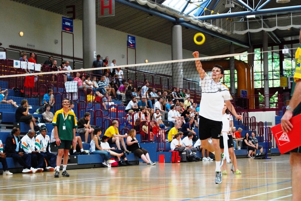 Ringtennis in action during the 2010 World Championships (men's singles).